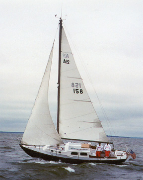 An Alberg 30 sailing yacht (#158: Sabrina) under sail on the Potomac River in Maryland during the fall of 2003